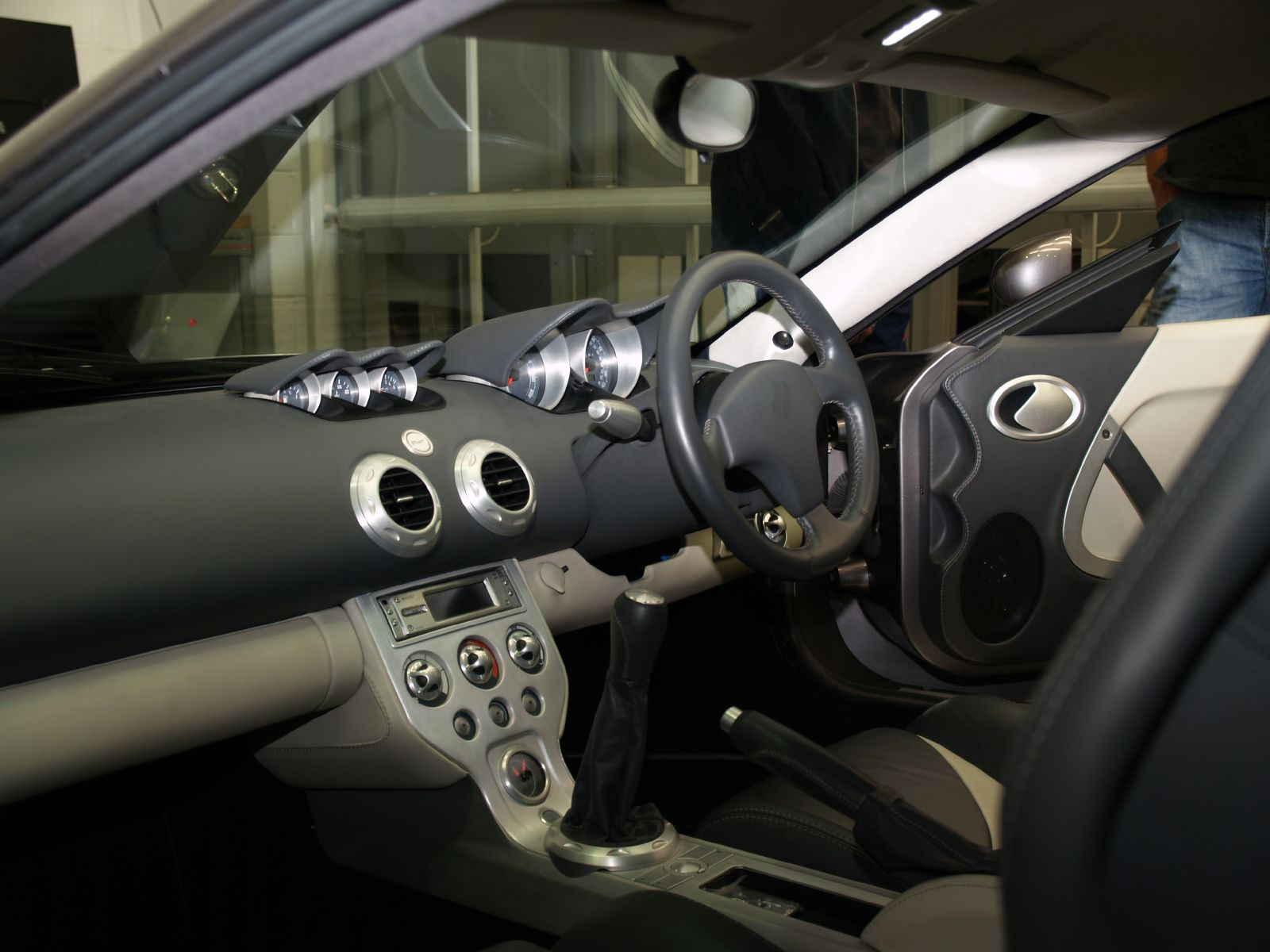 The interior of an Ascari KZ1